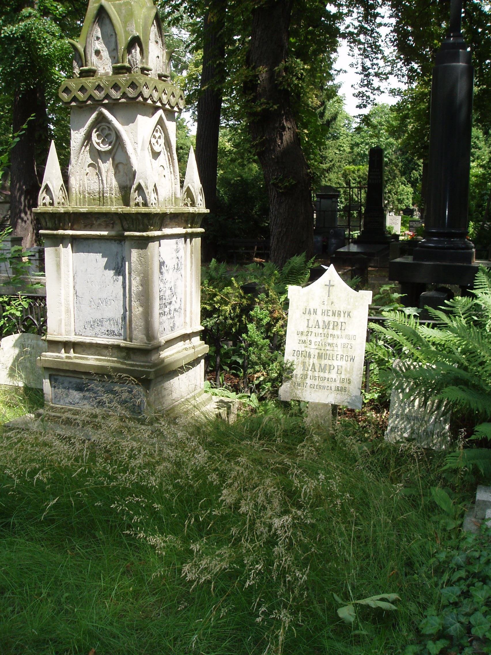 Lampe family headstone, lutheran cemetery in Warsaw